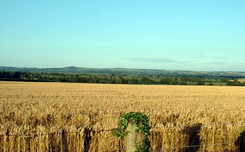 Arable land in Dorset, by Joe D in July 2004.